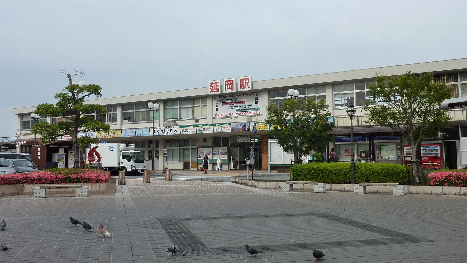 The Nobeoka Station (Nobeoka City, Miyazaki Prefecture, Japan)